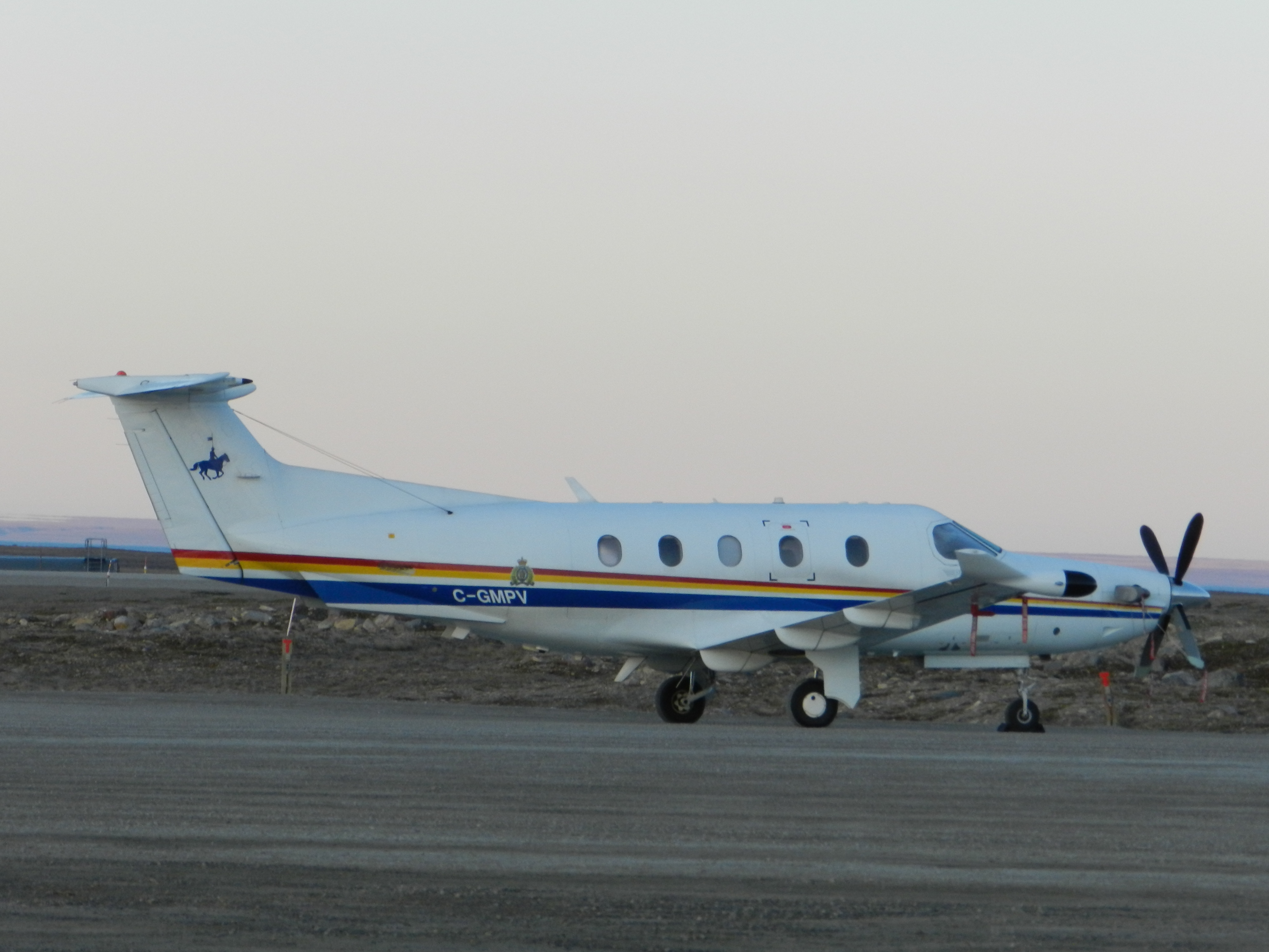 C-GMPV, a PC12 belonging to the RCMP at Cambridge Bay Airport